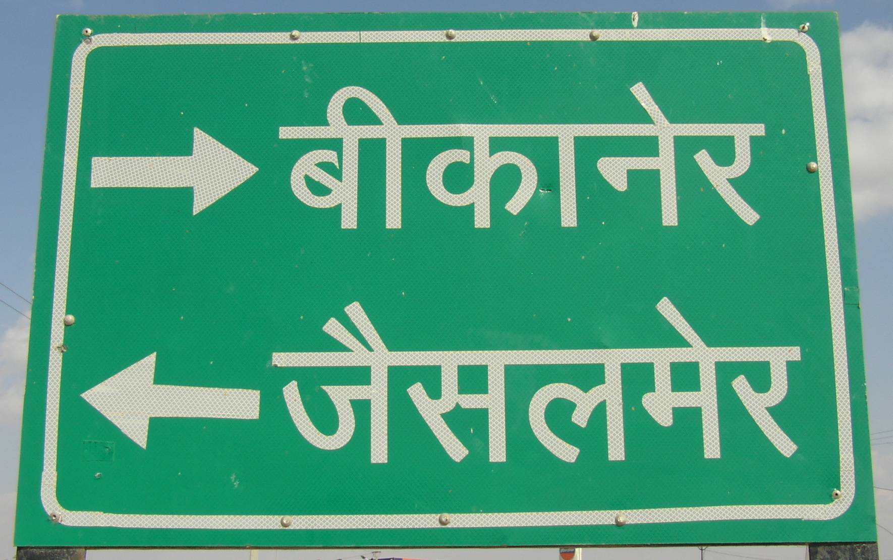 Road Sign to Bikaner and Jaisalmer near Pokaran in Rajasthan, India